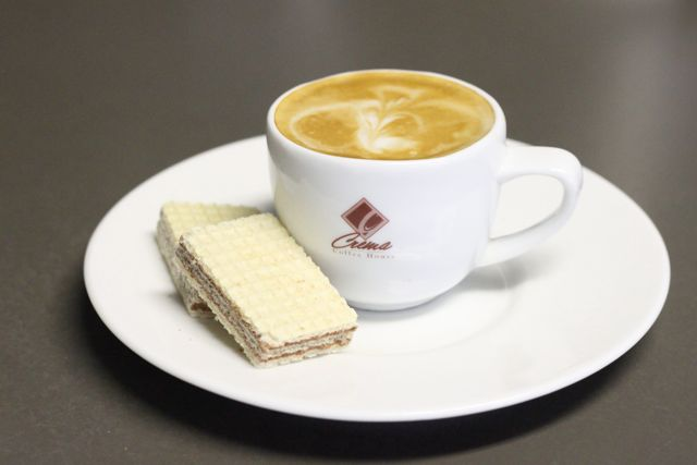 This is a particular type of Espresso called the Antoccino. Basically it is a small, strong latte in an espresso cup with half the volume espresso, and half the volume steamed milk.